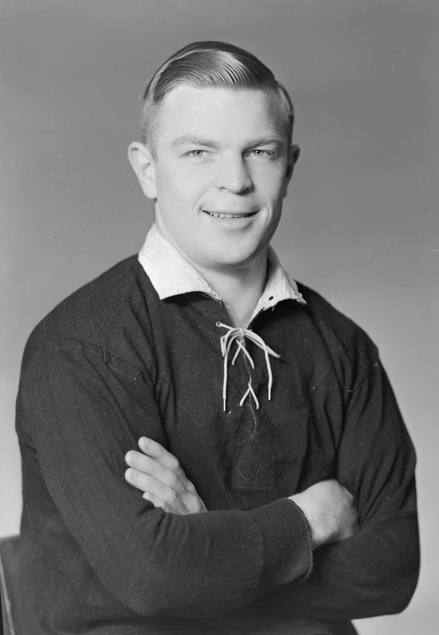 Photograph of rugby All Black trialist Peter Henderson, known as Sammy Henderson, taken 1948 by Crown Studio Ltd of Wellington.